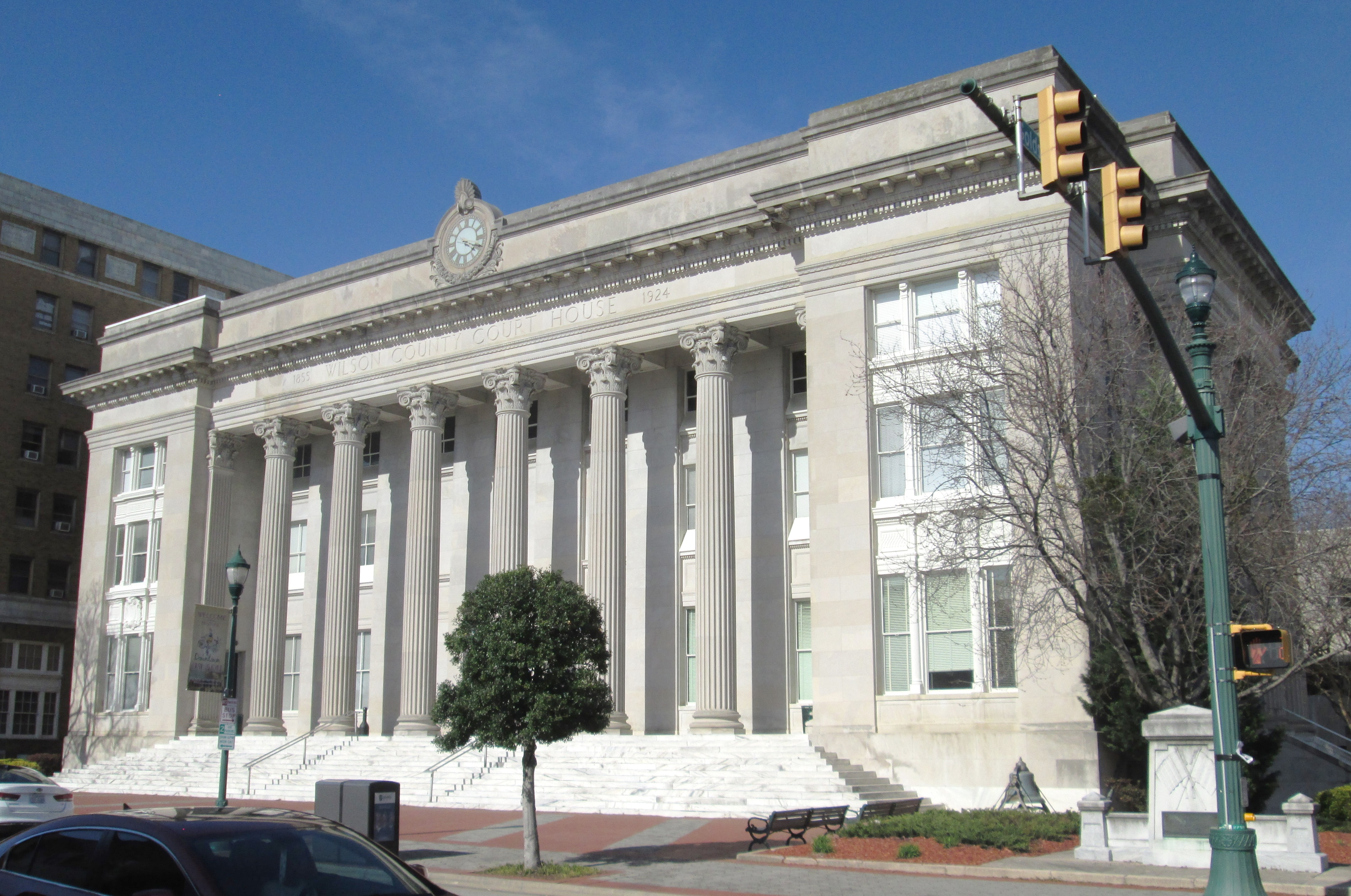 The Wilson County Court House at 115 Nash Street E in Wilson, North Carolina was built in 1925-25, replacing a brick court house on the same site that had been built in 1855 and re-modeled in 1902. The current courthouse was designed by Fred A. Bishop in the neo-Classical style. The building was listed on the National Register of Historic Places in 1979.